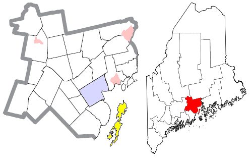 Map of the divisions of Waldo County, Maine, United States, with the town of Islesboro highlighted in yellow. The city of Belfast is light blue; other towns are white; and pink areas are census-designated places within towns.